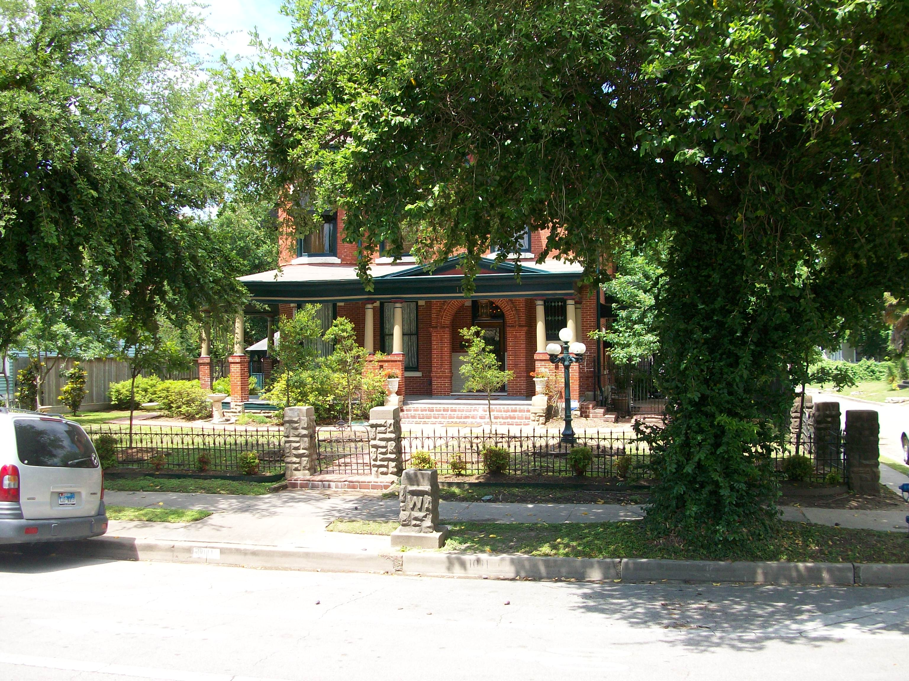 Front view from street